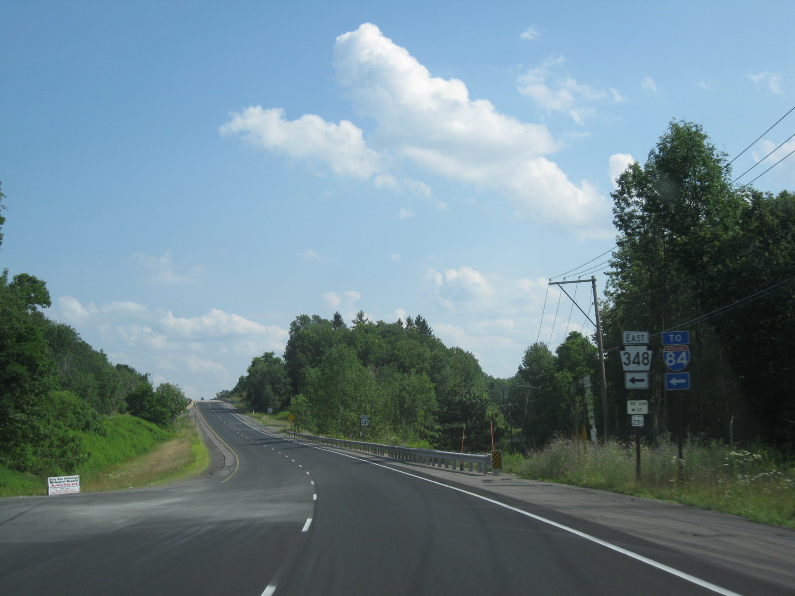 The western terminus of Route 348 at an intersection with Route 435 southbound in Elmhurst Township, Pennsylvania.